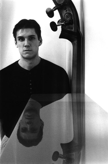 Picture is of Ben Allison. Taken by Ben Allison in 1999 in New York City. This should be in the article about bassist/composer Ben Allison